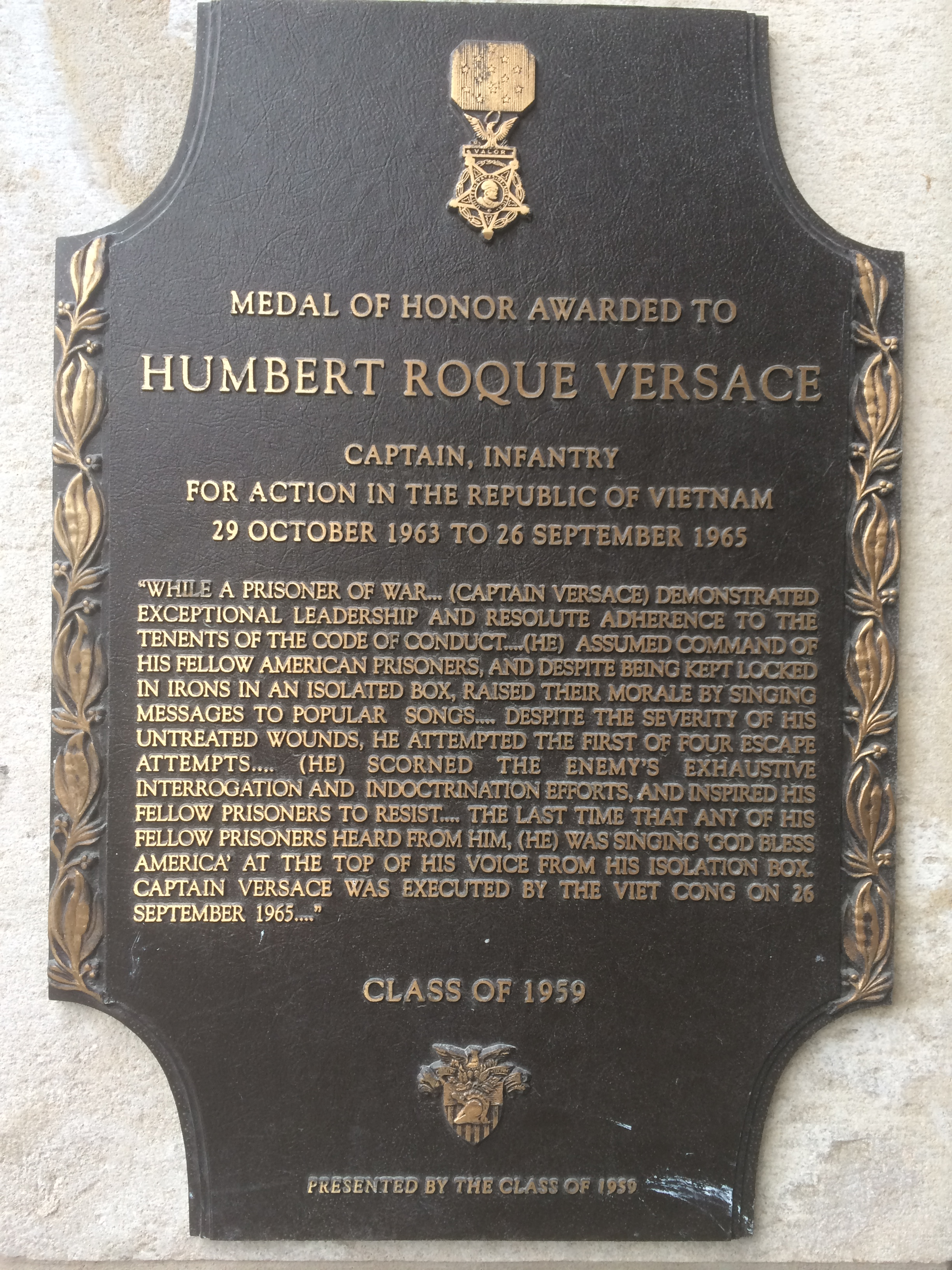 Versace's memorial plaque bearing his Medal of Honor citation as seen outside MacArthur Barracks at the United States Military Academy in West Point, New York